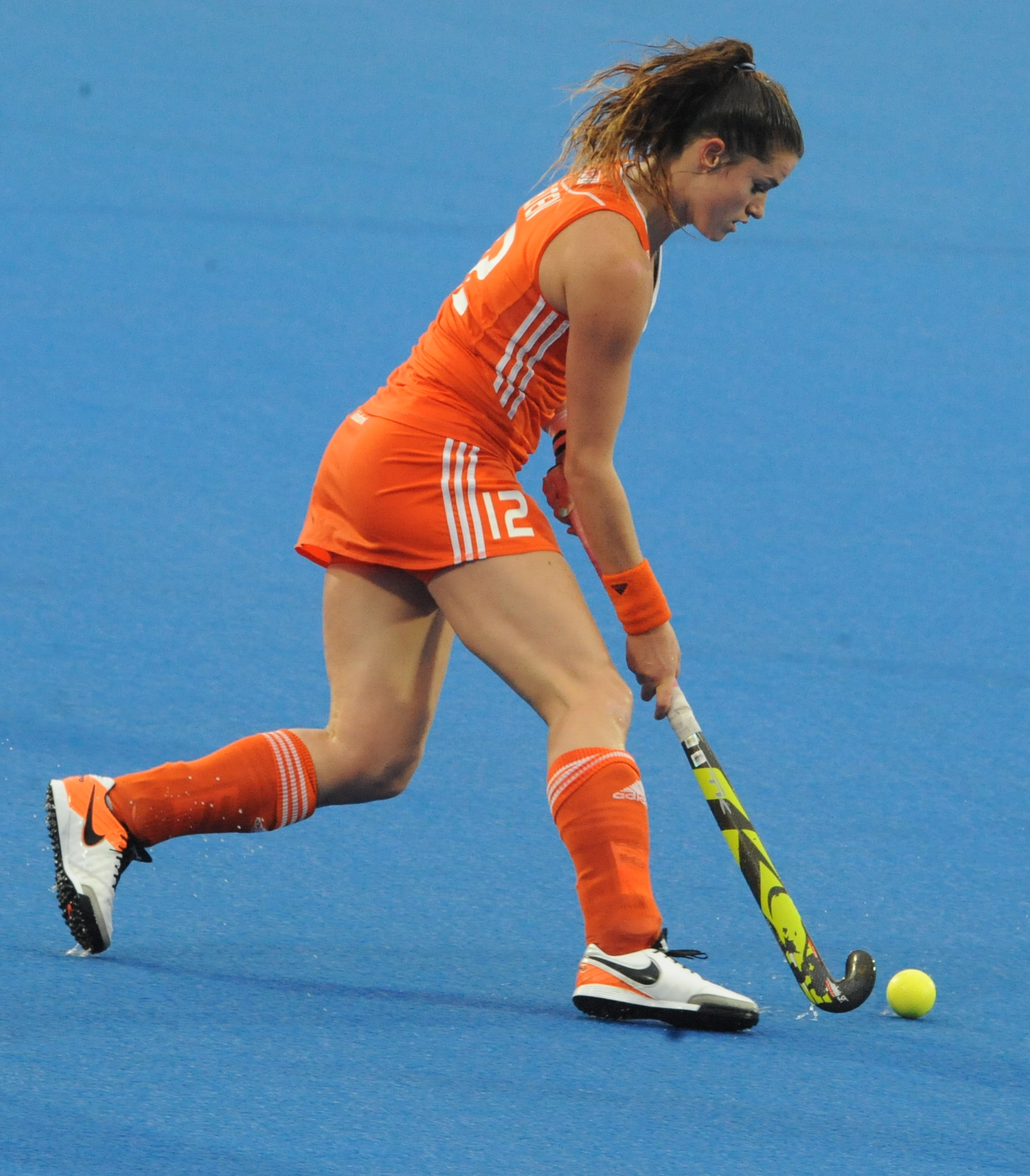 CT 2016: Australia v Netherlands